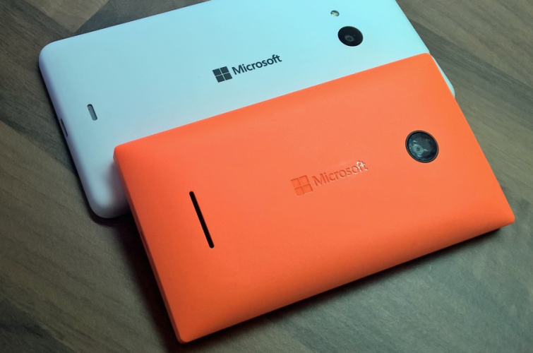 The Microsoft Lumia 535 and the Microsoft Lumia 435.